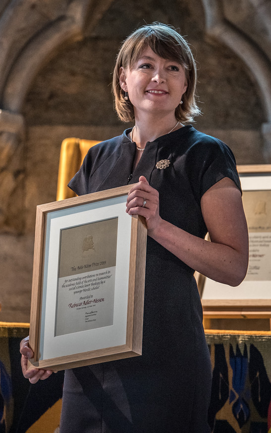 Rebecca Adler-Nissen winner of the Nils Klim prize